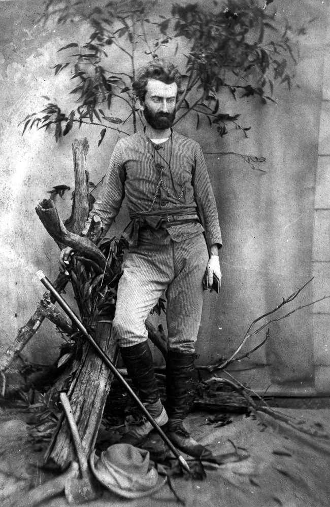 Explorer and anthropologist Nicholas Miklouho-Maclay, ca. 1880 in Queensland, Australia. A typically posed shot from the period to indicate the "explorer" persona — note the Eucalypt leaves in the background.